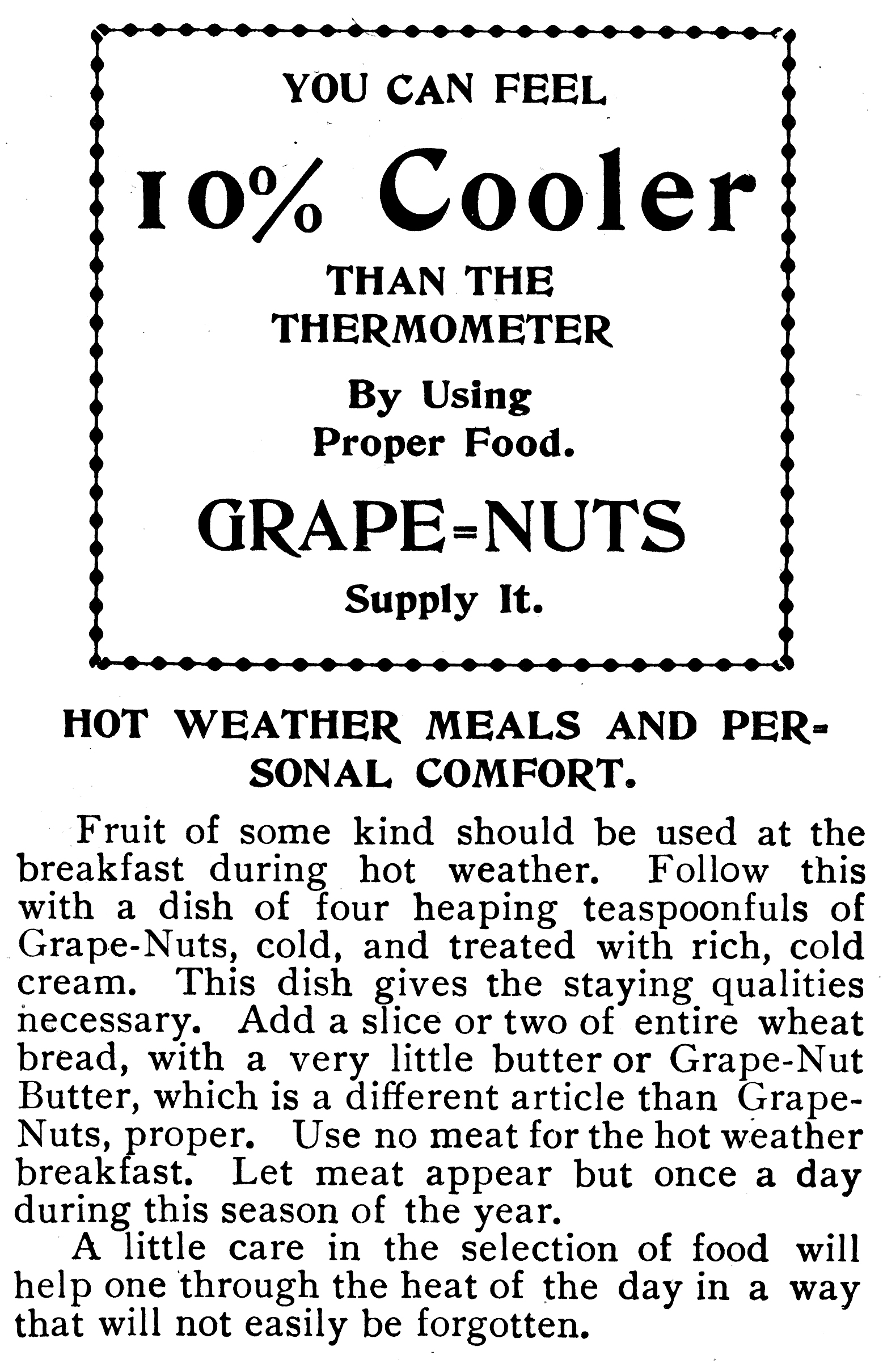 Advertisement for Grape-Nuts cereal 1900